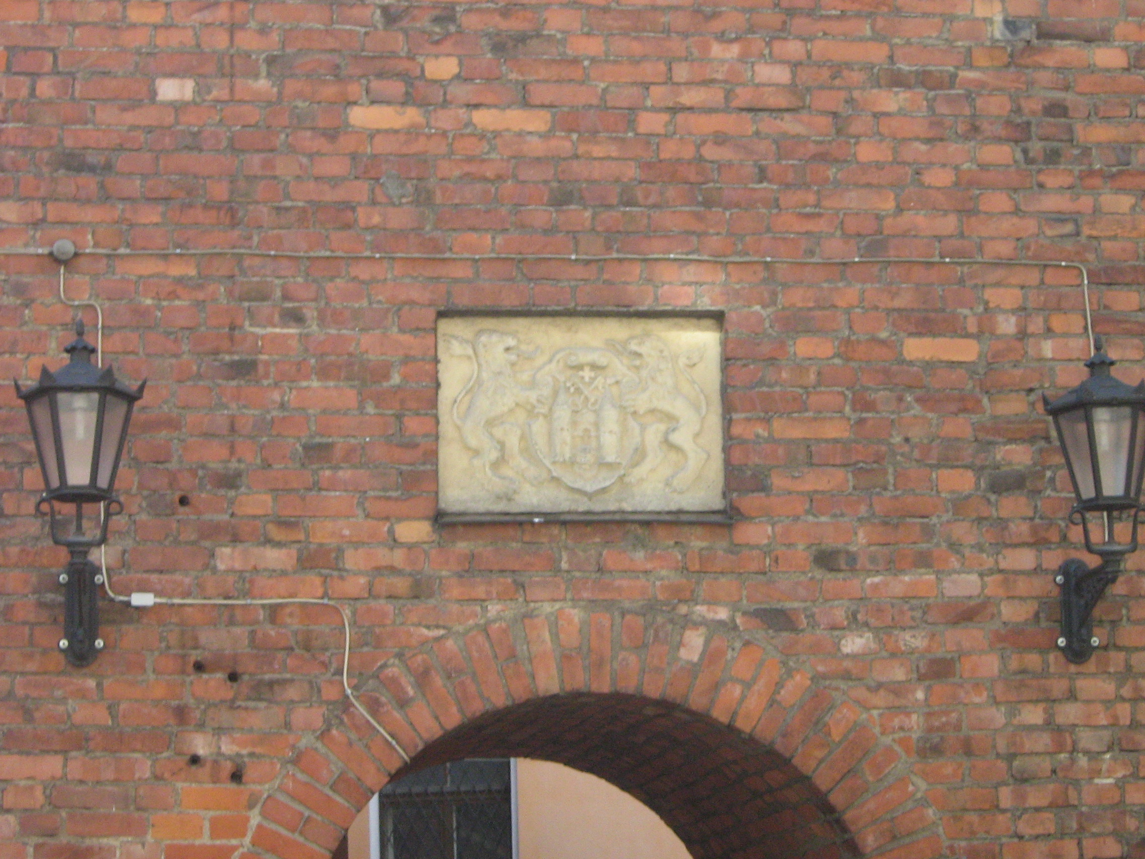 Coat of arms of Riga decorates wall in Old town of Riga